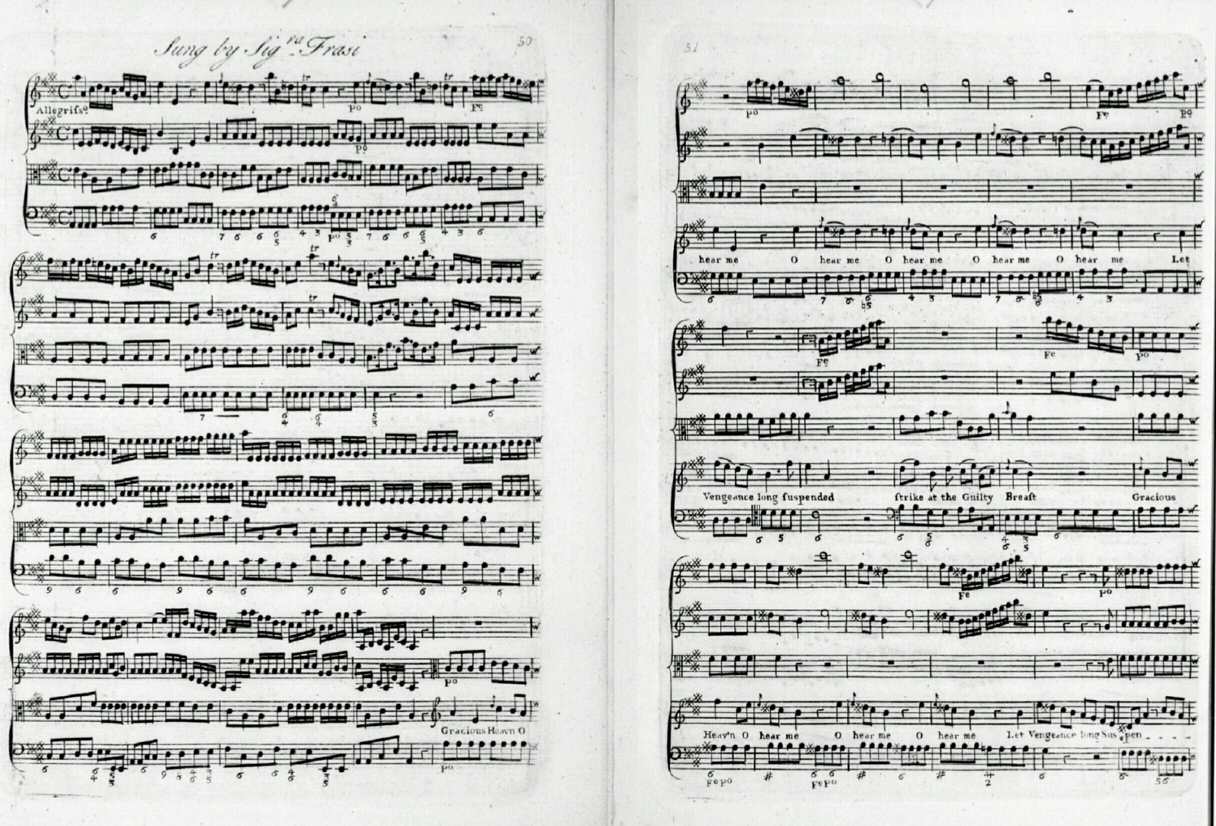 First tow pages of the aria "Gracious Heav'n" written by Thomas Arne and added to The Masque of Alfred for Giulia Frasi.